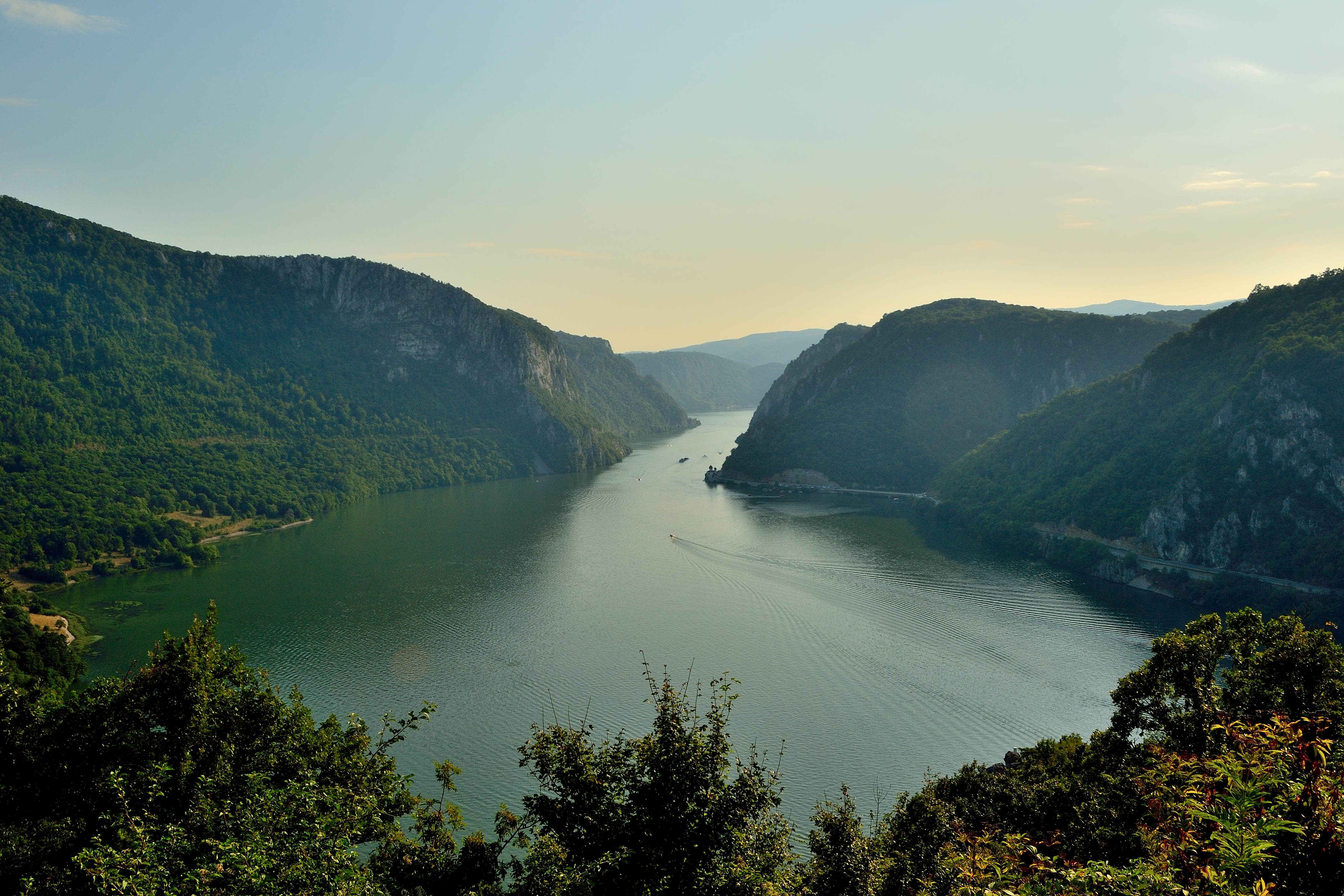 Part of the Djerdap (Iron Gate) gorge, known as Kazan, as viewed from the Serbian side. Српски (ћирилица): Део Ђердапске клисуре, познат као Казан, поглед са српске стране.